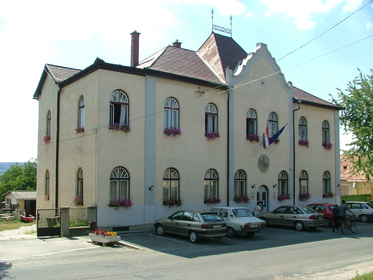 City hall, Pannonhalma